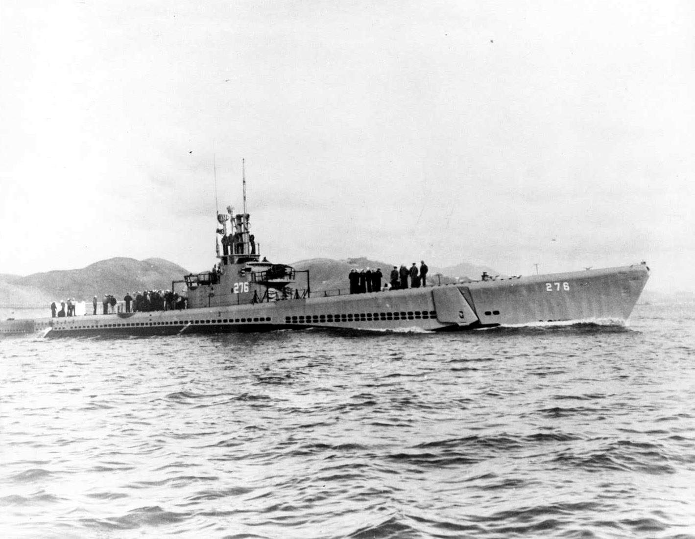 USS_Sawfish; Sawfish (SS-276), starboard side view, probably off Hunter's Point area near San Francisco CA., following an overhaul in late 1943-early 1944. USN photo courtesy of